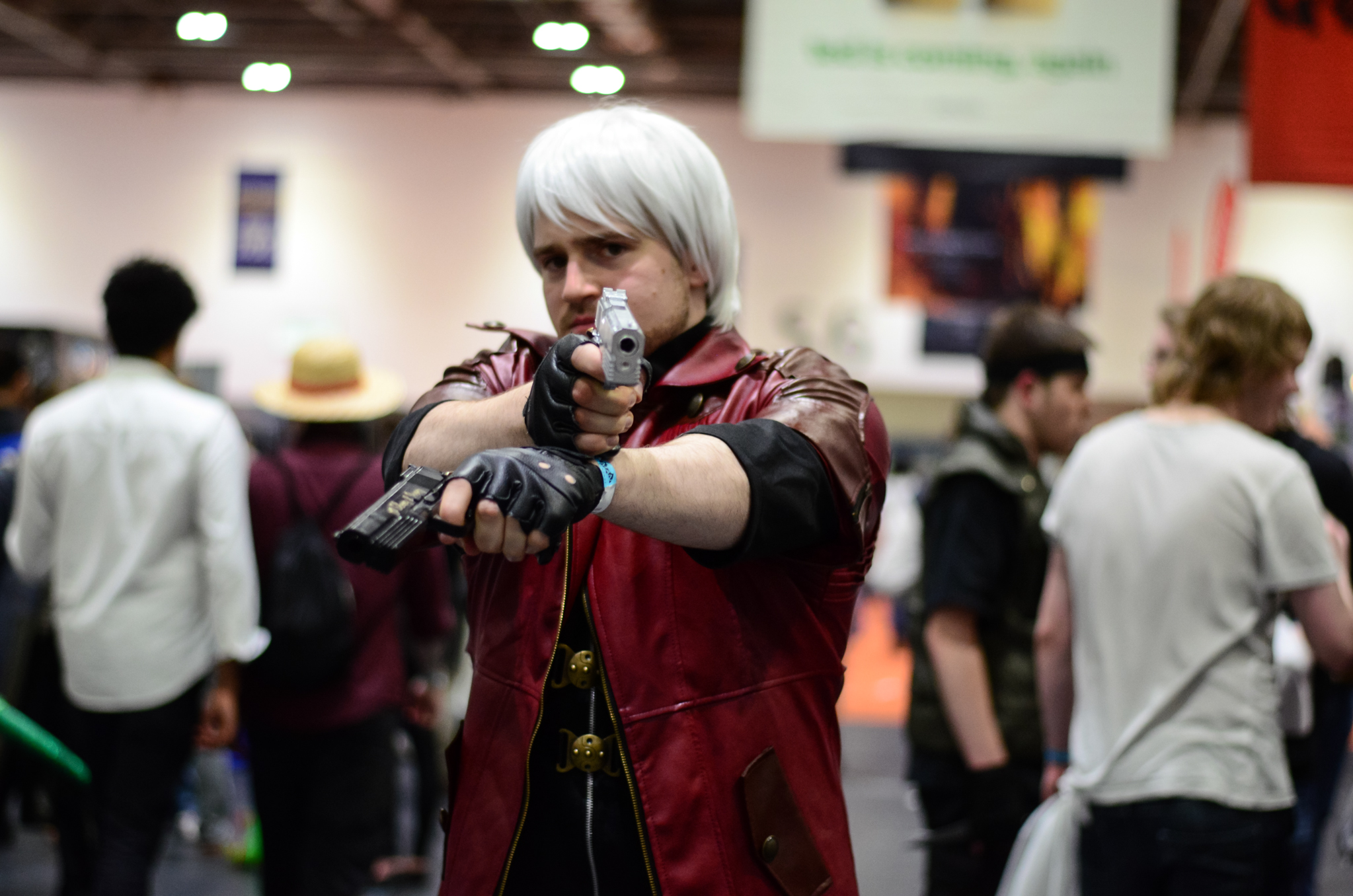 Cosplay at the May 2015 MCM London Comic Con at the ExCel Centre.